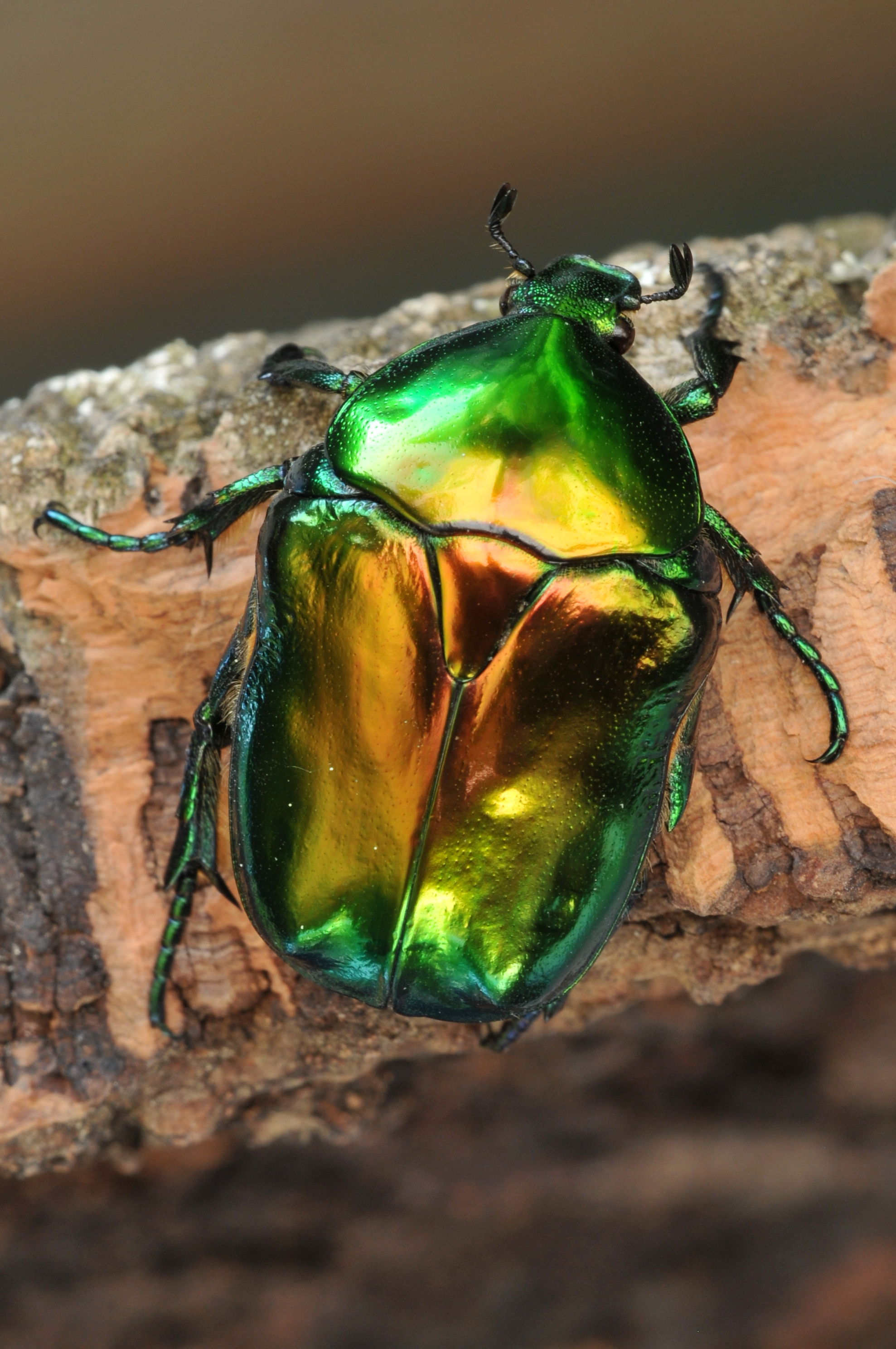 Protaetia aeruginosa, Neu-Isenburg, Offenbach (district), Hesse, Germany